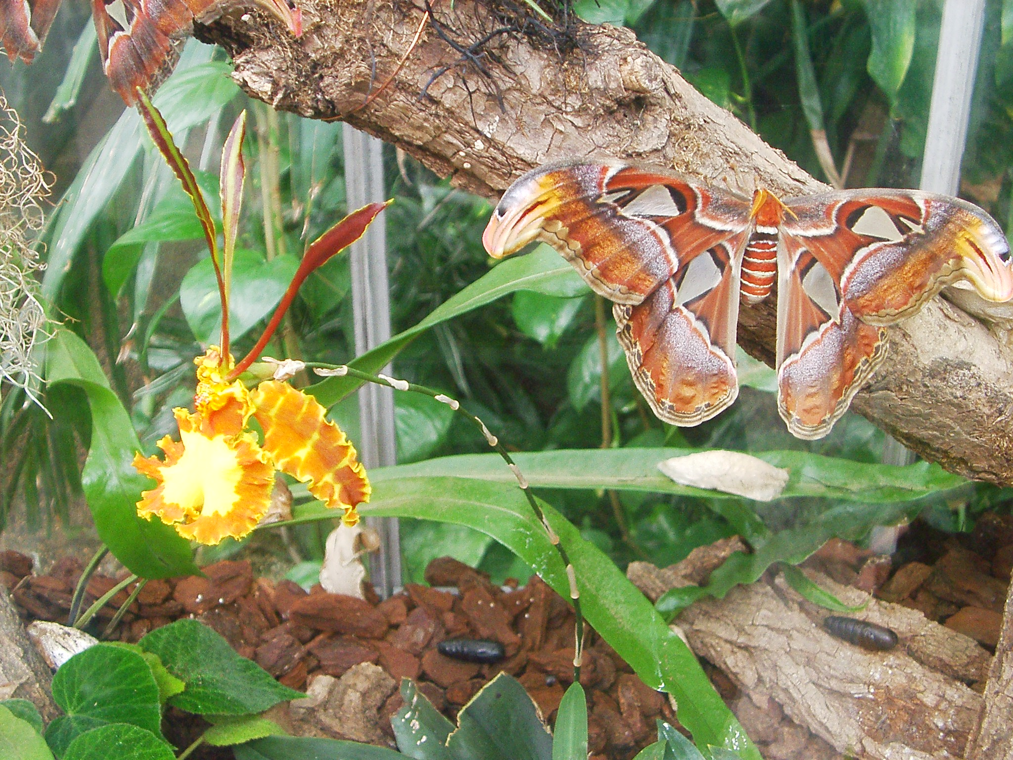 Attacus atlas butterflies and cocoons at Botanical Garden of the University of Bern/Switzerland.